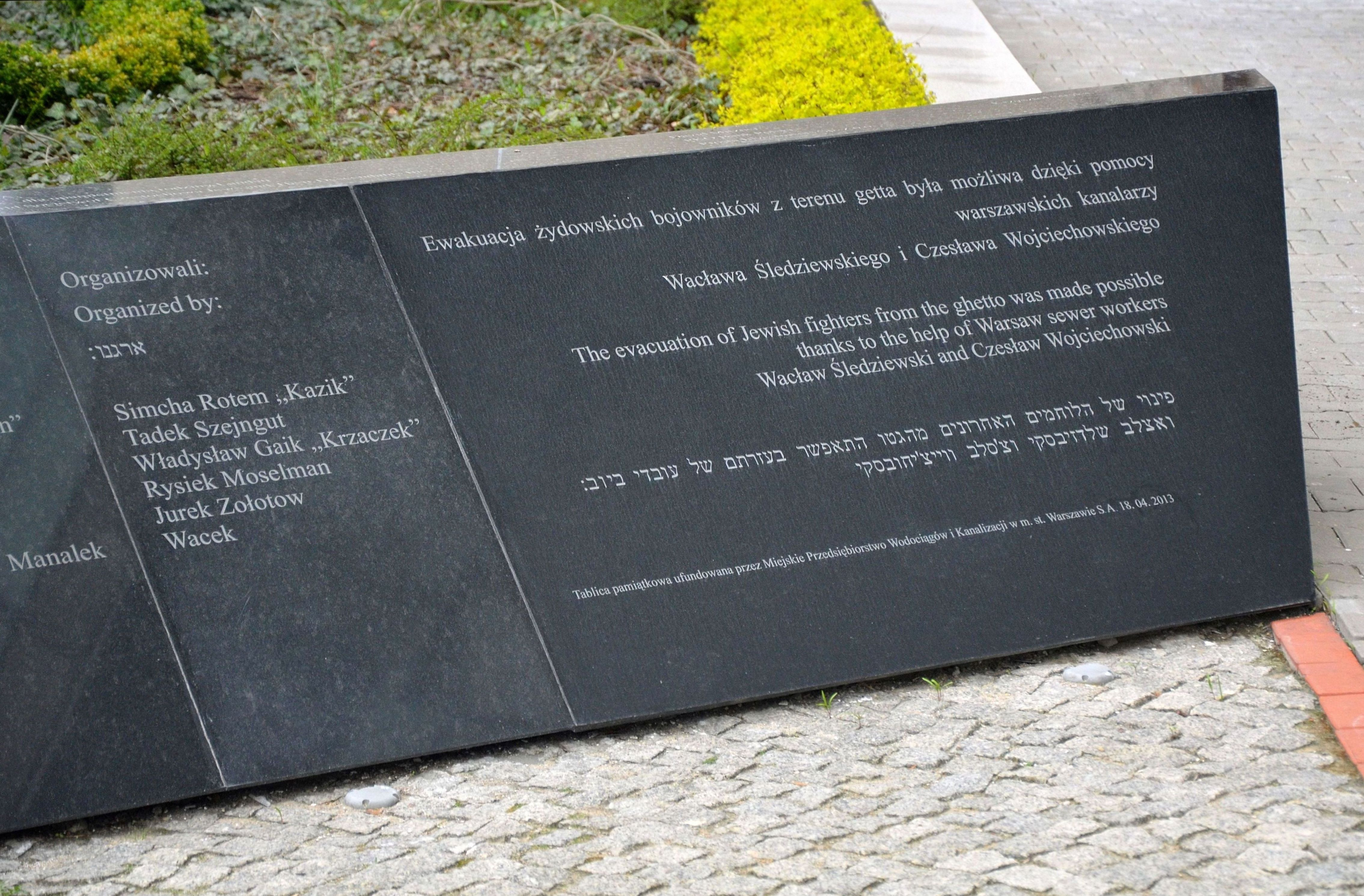 Monument to Evacuation of the Warsaw Ghetto Fighters at 51 Prosta Street in Warsaw